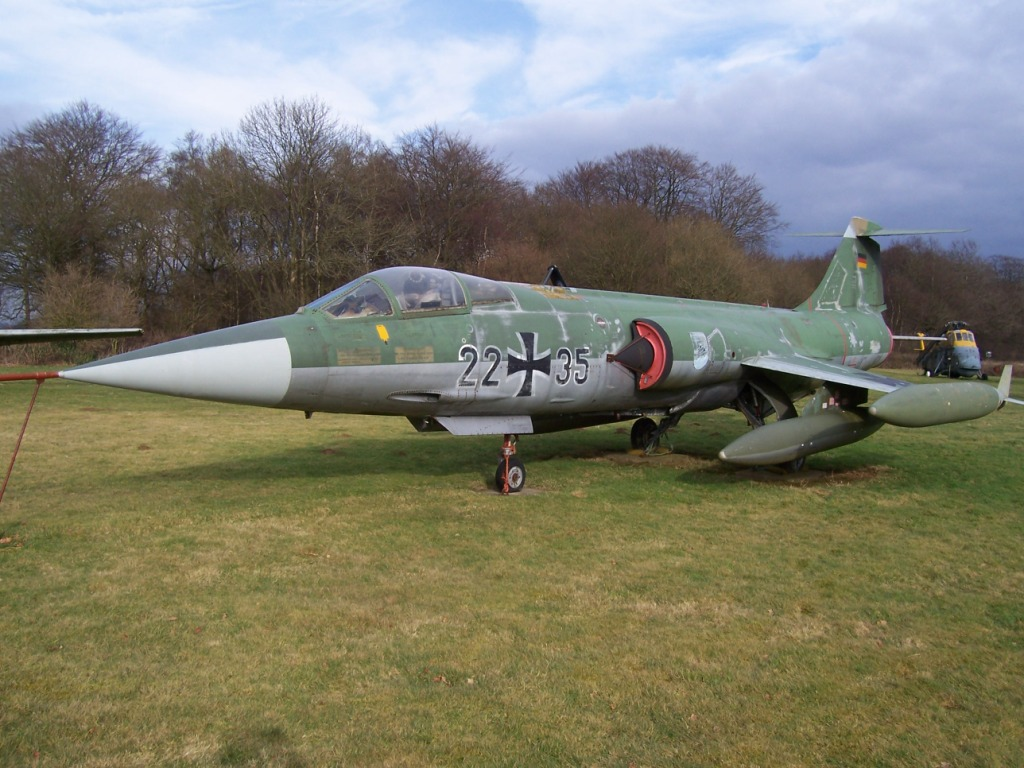 A former German Lockheed F-104G Starfighter (s/n 22+35) preserved at Lasham airfield, England, United Kingdom. The emblem on the intake is from Jagdbombergeschwader 34 "Allgäu" (34th Fighter-Bomber Wing), which was based at Memmingerberg, Bavaria (Germany). It used the F-104G from 1964 to 1987.